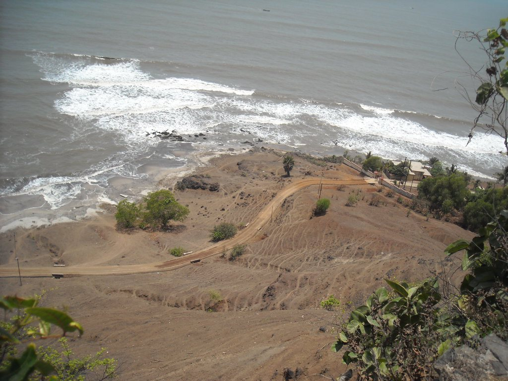 image was taken form korlai fort